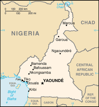 Cameroon map from CIA World Factbook, converted from original GIF format